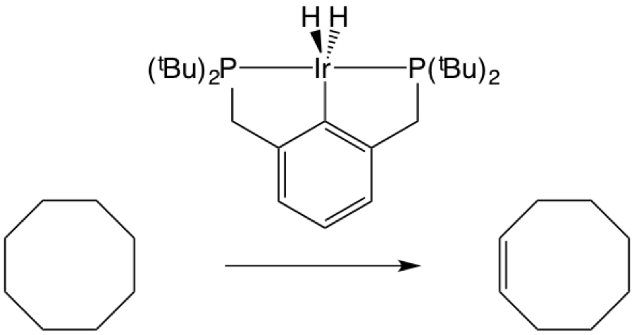 Pincer complex catalyzes dehydrogenation of cyclooctane